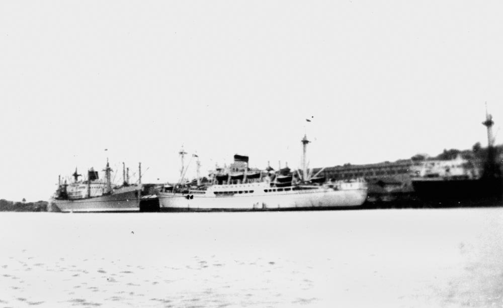 Paolo Toscanelli (ship) The Paolo Toscanelli is pictured in the centre.